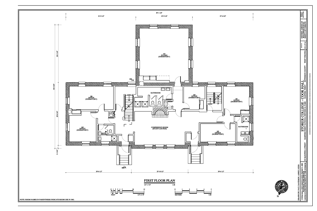 Cook Hall; Dormitory; Storer College, Harpers Ferry, W.Virginia